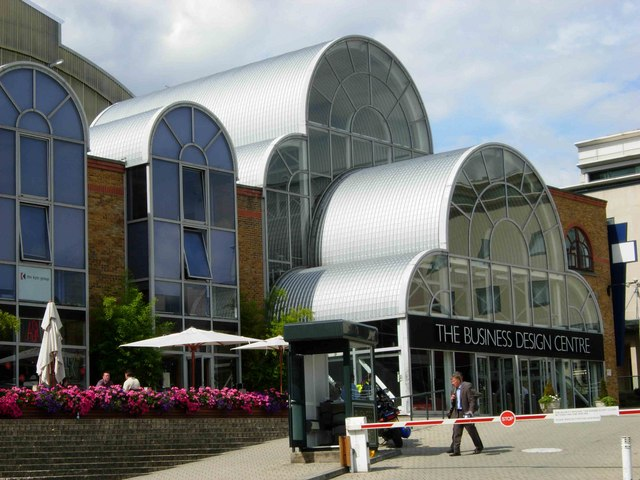 The Business Design Centre, Islington. The Business Design Centre is an exhibition and conference venue in the heart of Islington. The building was formerly the Royal Agricultural Hall.